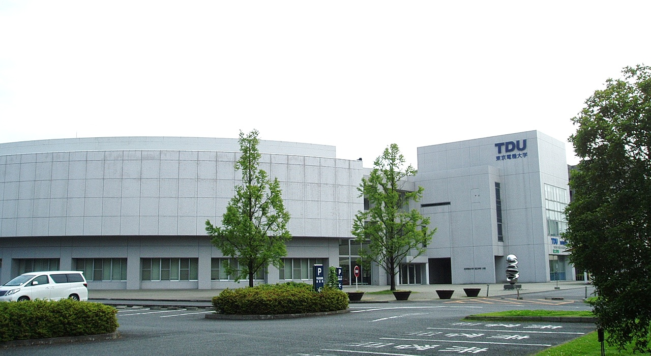 The main building (Bldg. #10) of Saitama Hatoyama Campus, Tokyo Denki University, located in Hatoyama, Saitama Prefecture, Japan.